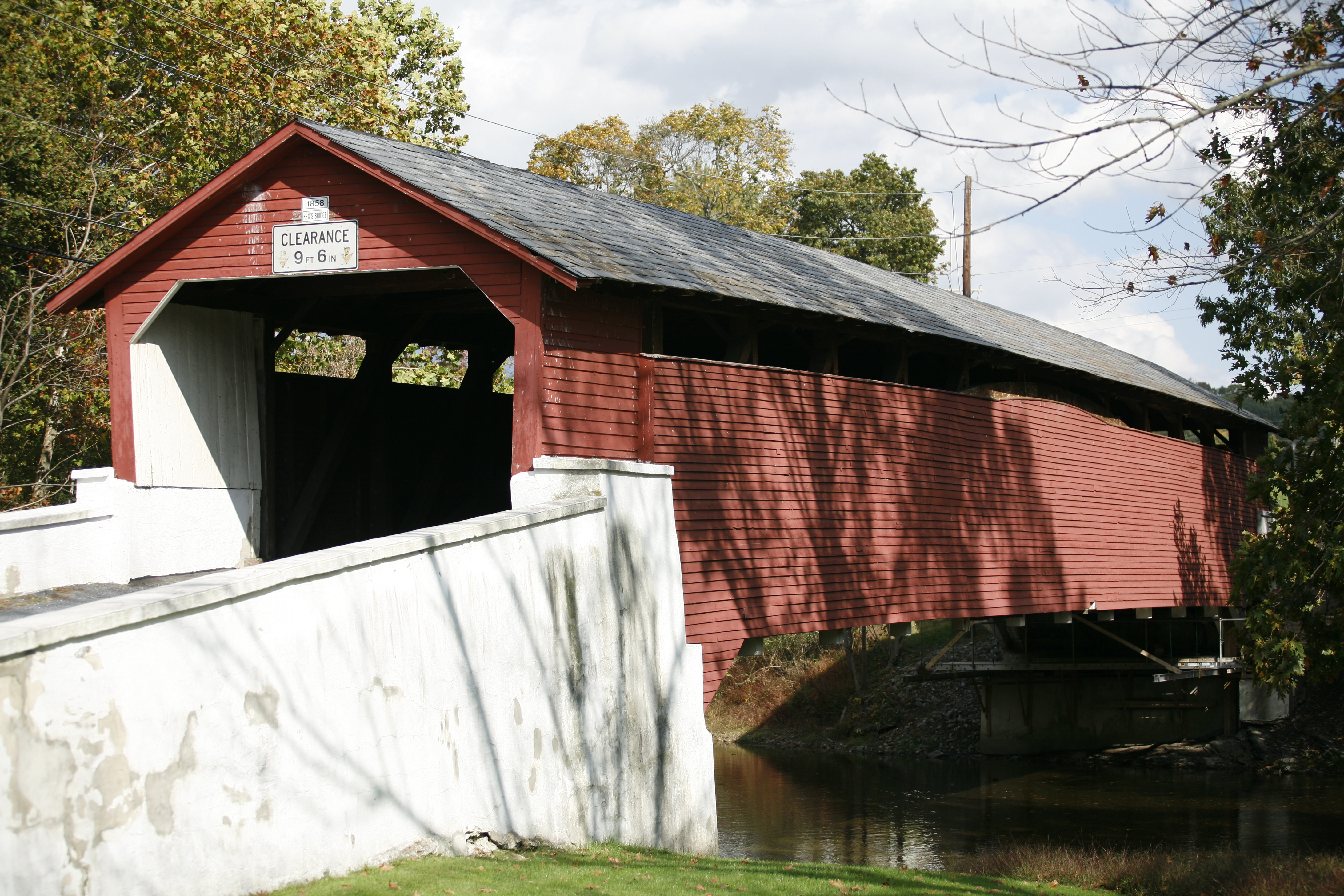 Rex Covered Bridge built in 1858 over Jordan Creek in North Whitehall Township, Lehigh County, Pennsylvania, USA.